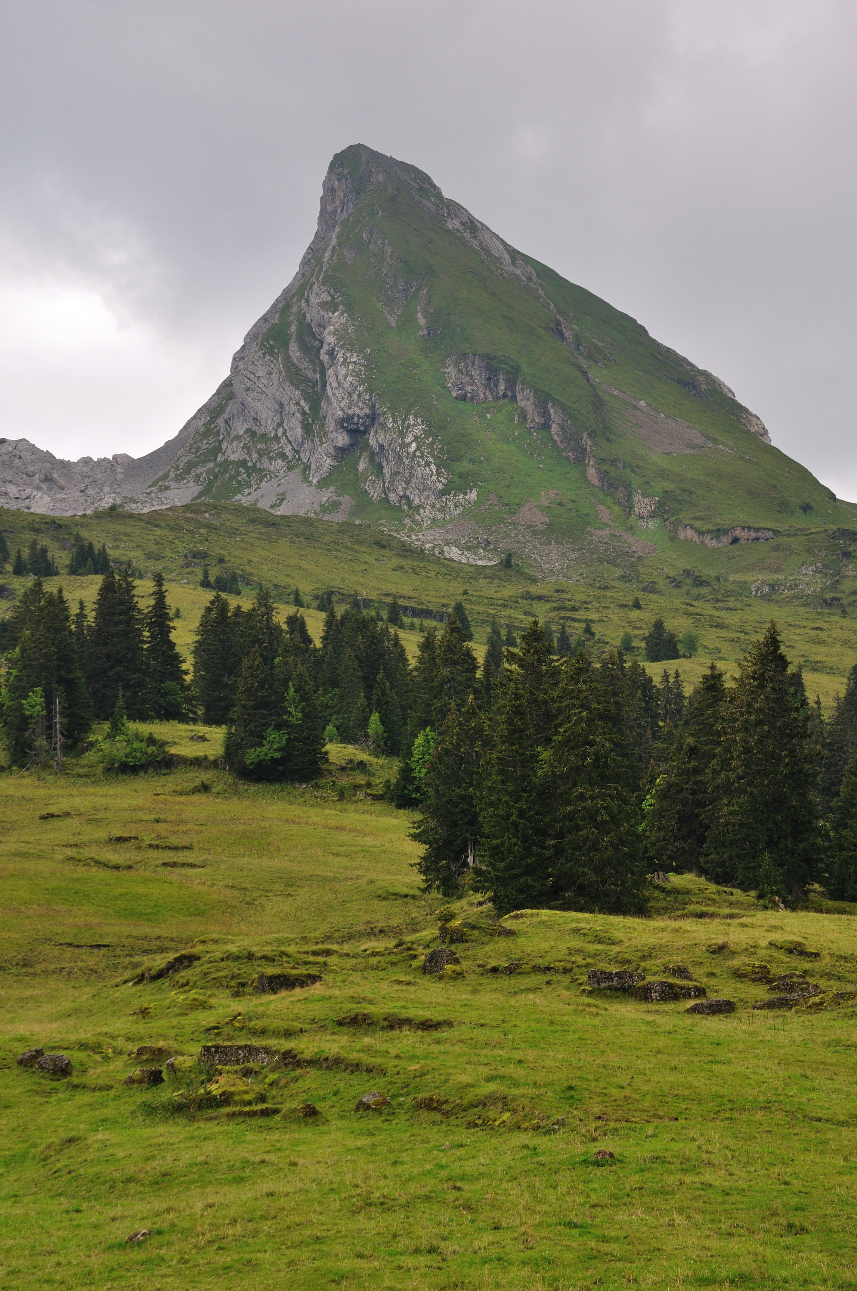 Switzerland, Canton of St. Gallen, Frümsel (2267 m asl), one of the 7 Churfirsten